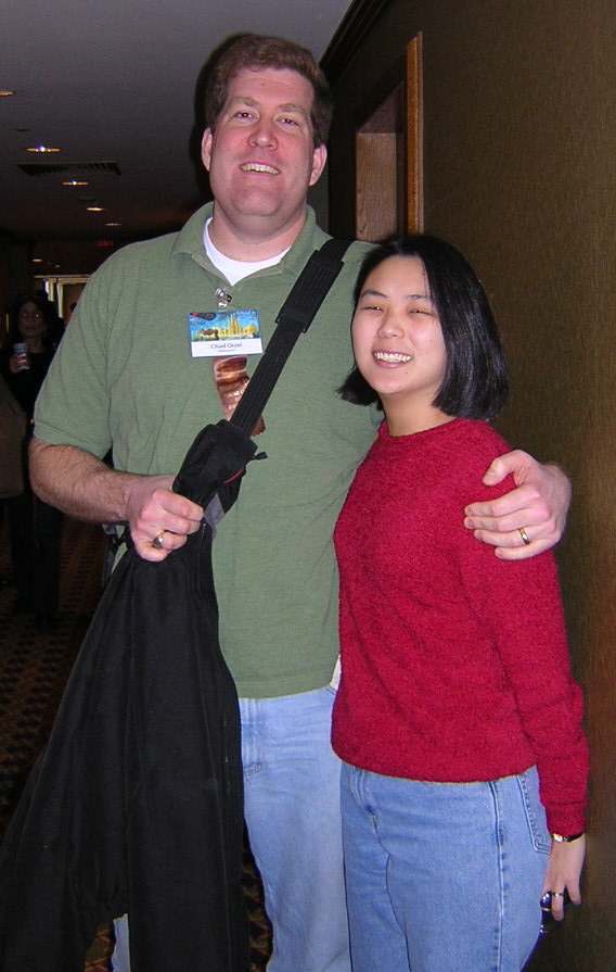 Captured in the wild, the mighty . Boskone 43, 2006